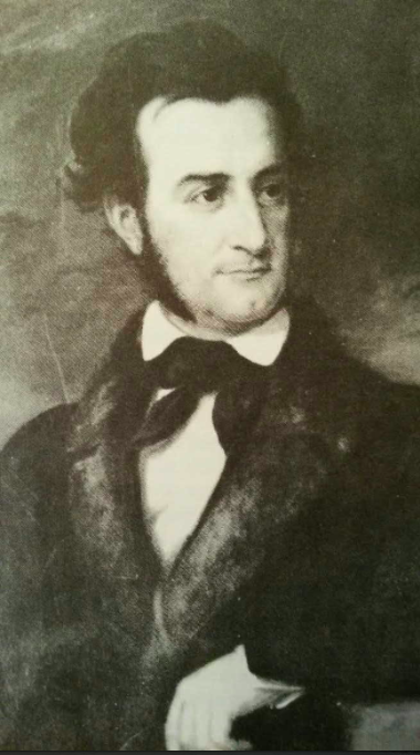 Photo of Portrait of Edward Thornton Tayloe